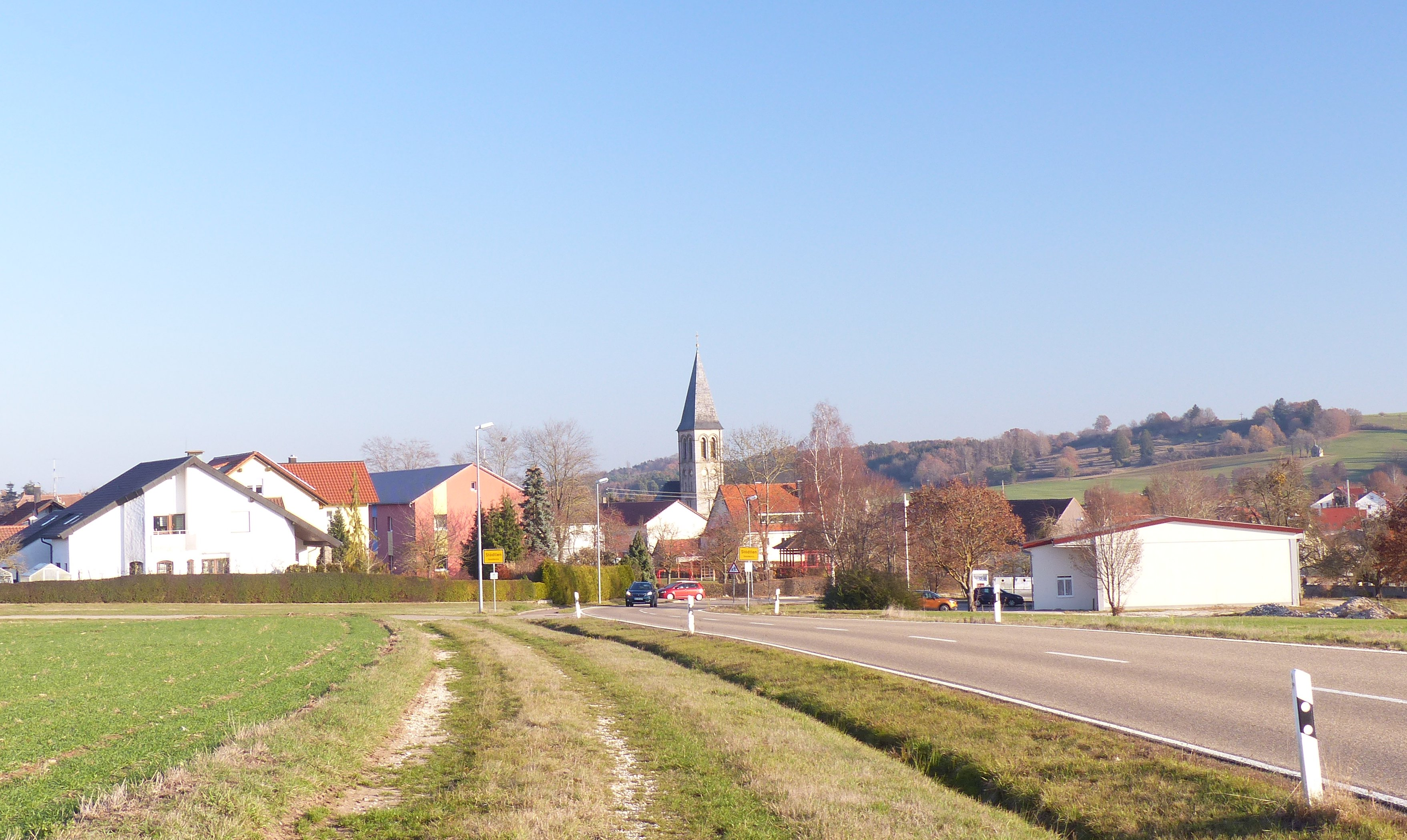 The municipality of Stödtlen